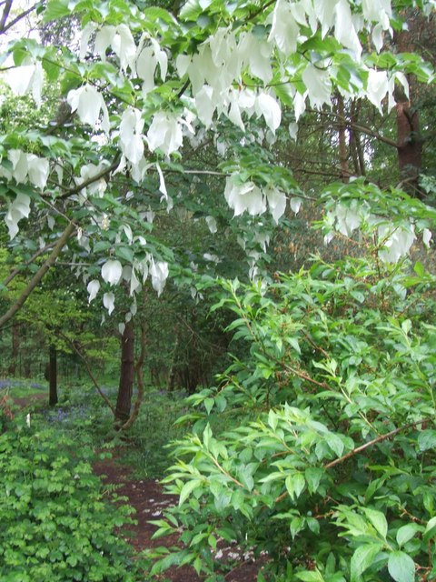 Prince Charles' Spinney, Richmond Park Prince Charles Spinney was planted out in the early 1950s mainly with native trees, protected from the deer by fences, to preserve a natural habitat. The bluebell glade is managed to encourage native British bluebells. Perhaps the handkerchief tree (Davidia involucrata) was self-seeded here - there is another example in Pembroke Lodge Gardens.